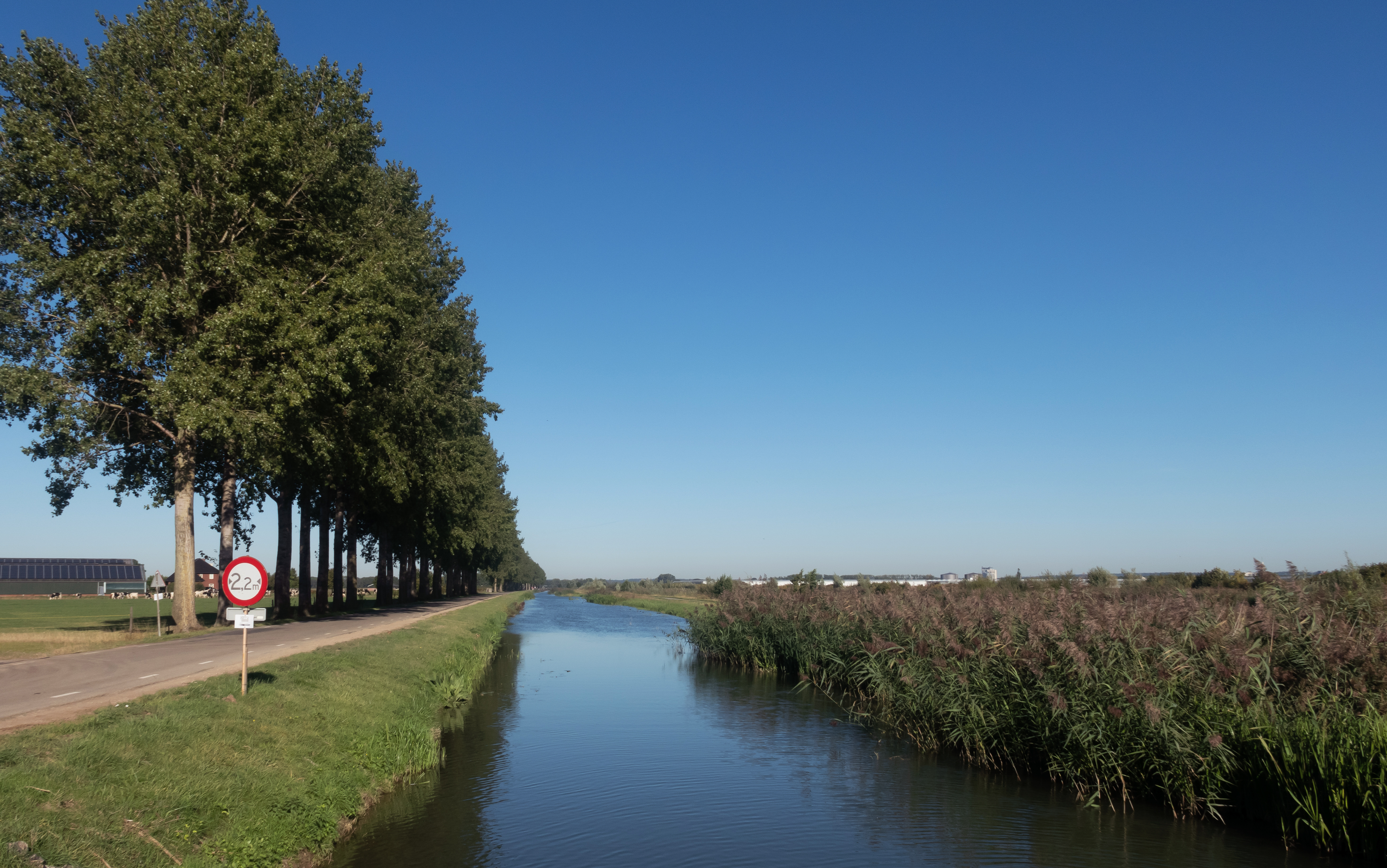 Bergerden, river the Linge near the Verlaten Land Pad